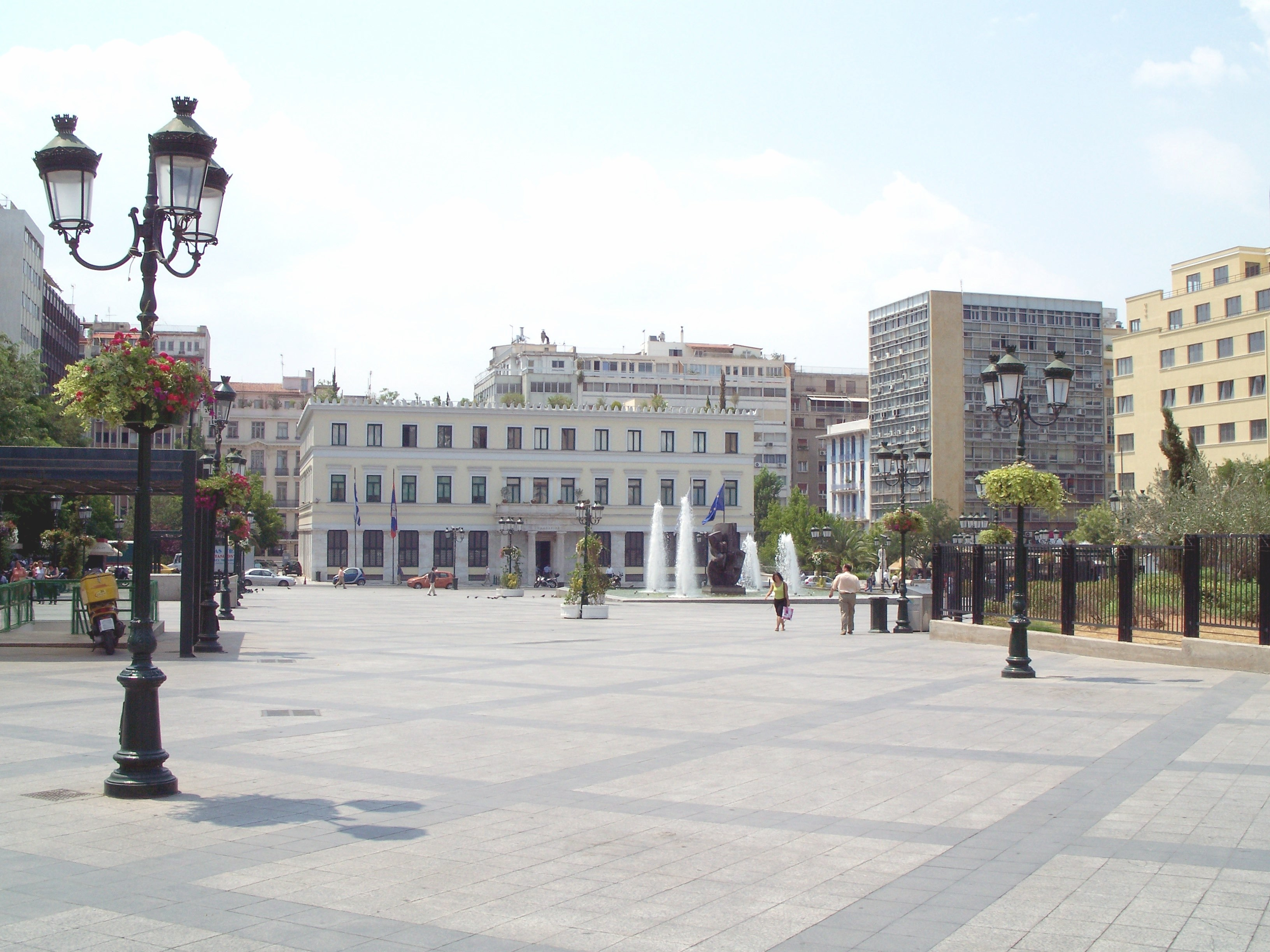 Kotzia square in Athens, Greece, with the Town Hall in the background